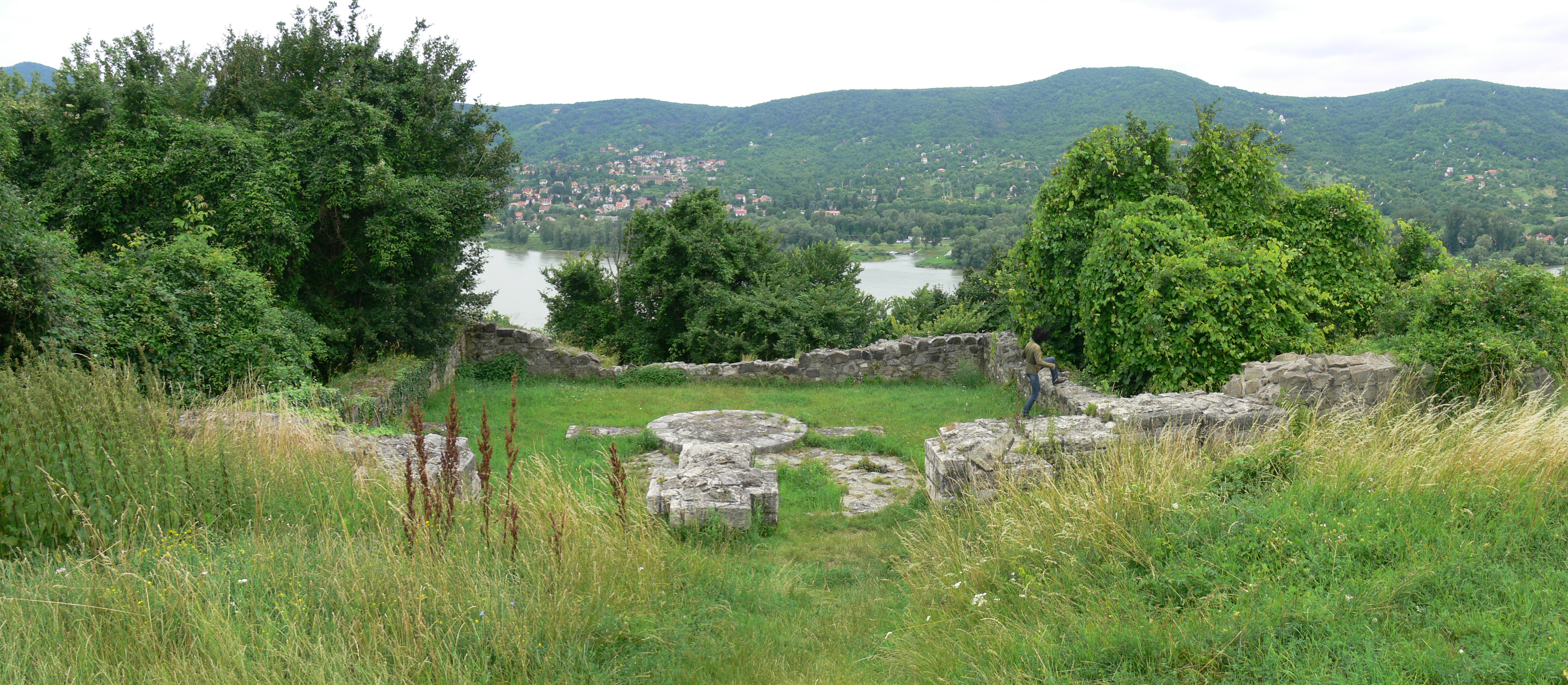 Remnants of the great tower of Pone Navata